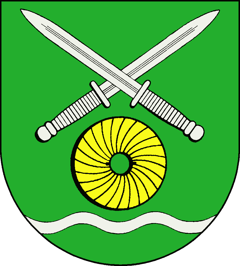 Coat of arms of the municipality Hadenfeld in Schleswig-Holstein, Germany.